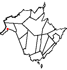 Edmundston, New Brunswick Location